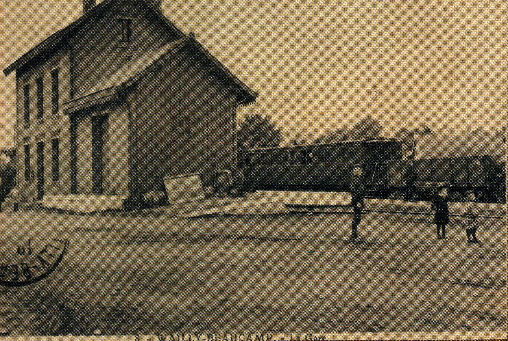 gare de Wailly-Beaucamp CP